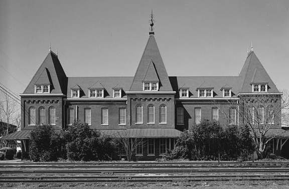 Holly Springs Depot The Depot, 274 Van Dorn Avenue, Holly Springs, Marshall County, – in Mississippi Image courtesy of Historic American Buildings Survey—HABS. Call Number HABS MISS,47-HOLSP,4- Created/Published Documentation compiled after 1933. Notes Survey number HABS MS-222 Subjects MISSISSIPPI--Marshall County--Holly Springs Reproduction Number [See Call Number] Collection Historic American Buildings Survey (Library of Congress) Repository Library of Congress, Prints and Photograph Division, Washington, D.C. 20540 USA DIGID CARD # MS0233